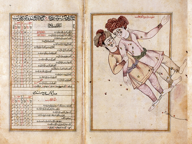 Gemini constellation in Persian astronomer Abd al-Rahman Sufi's book - New York Public Library